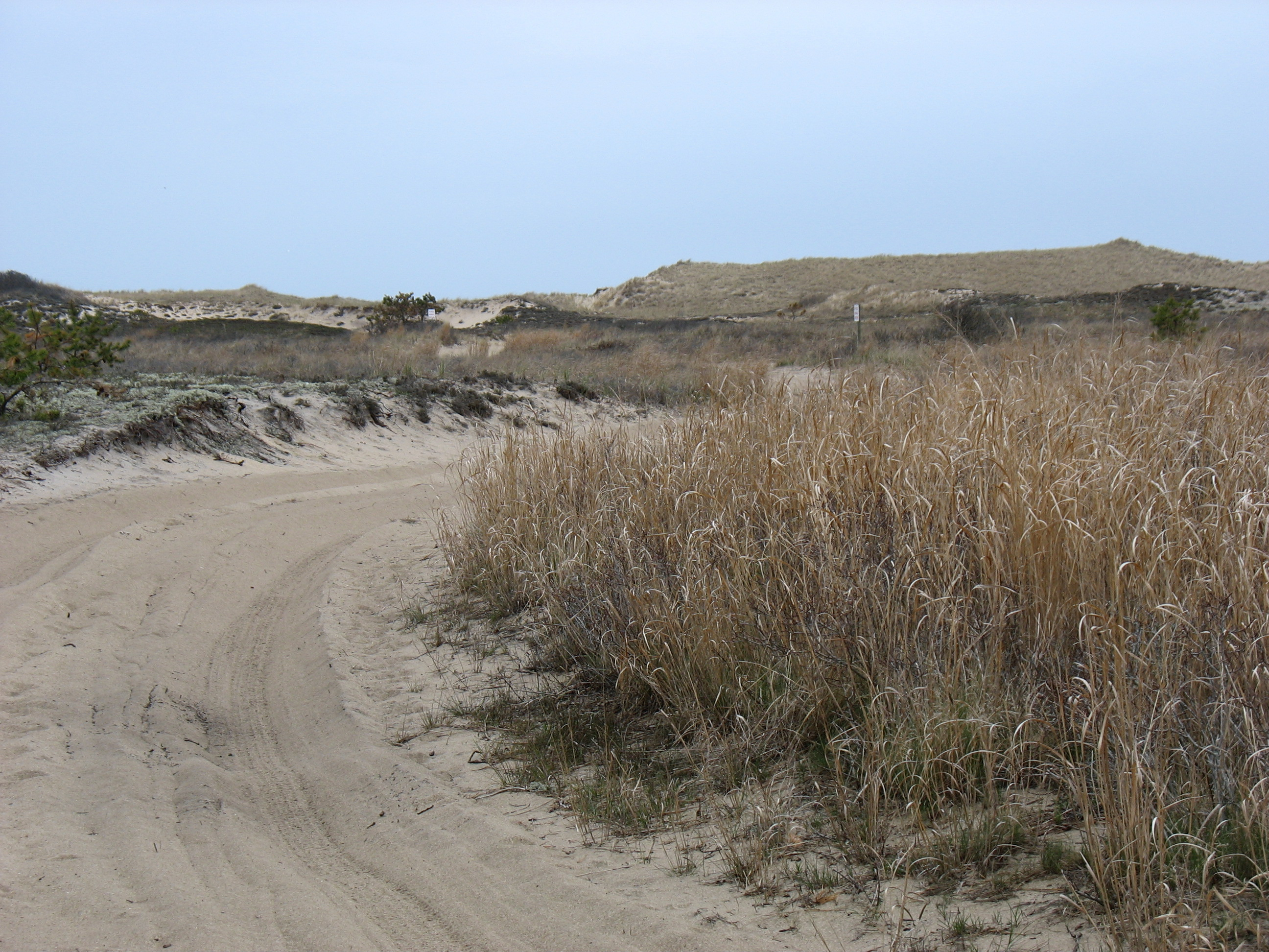 Road to Napeague State Park